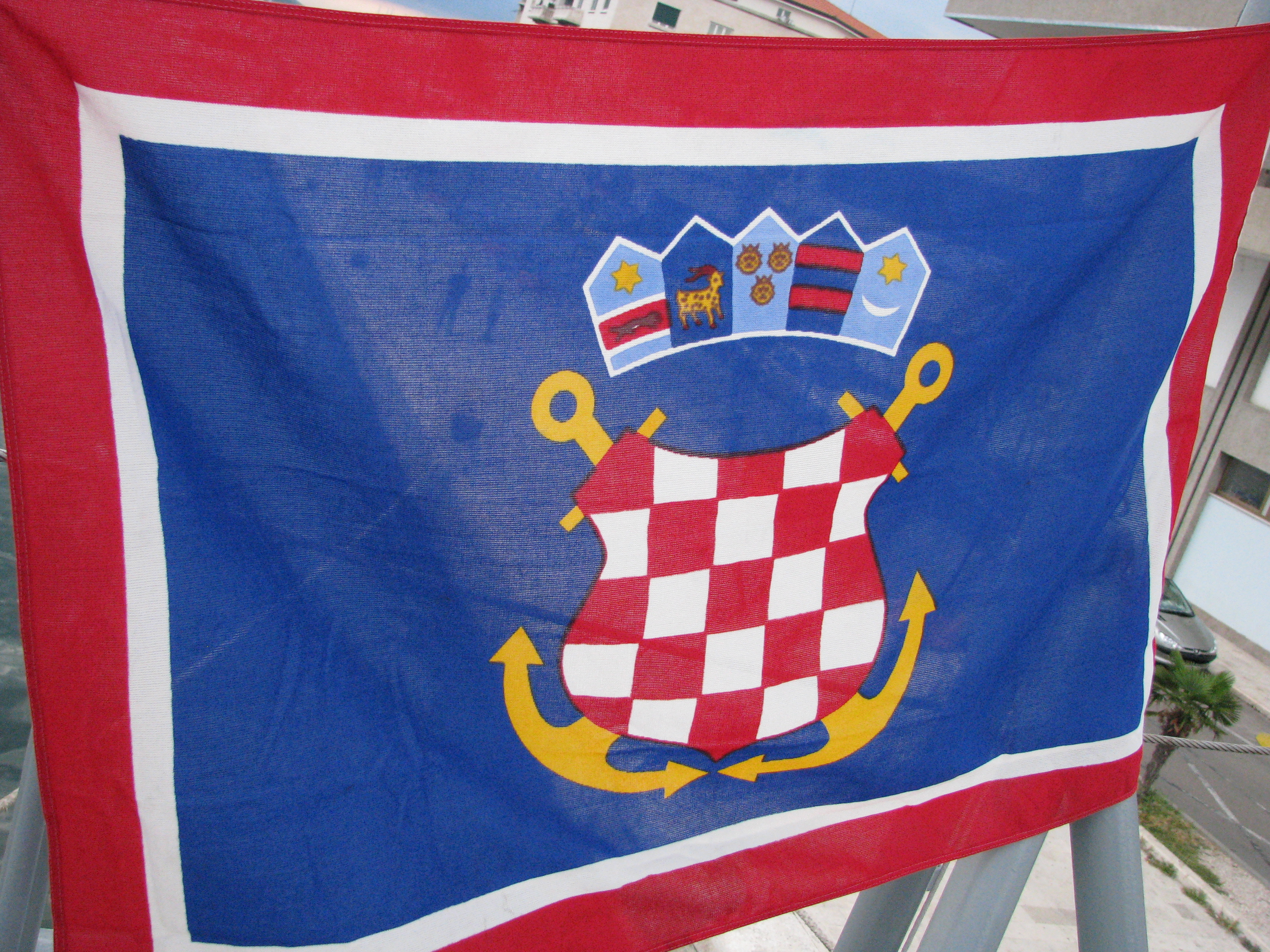 Old naval jack of Croatia, still in use on naval ship DBM-81 Cetina